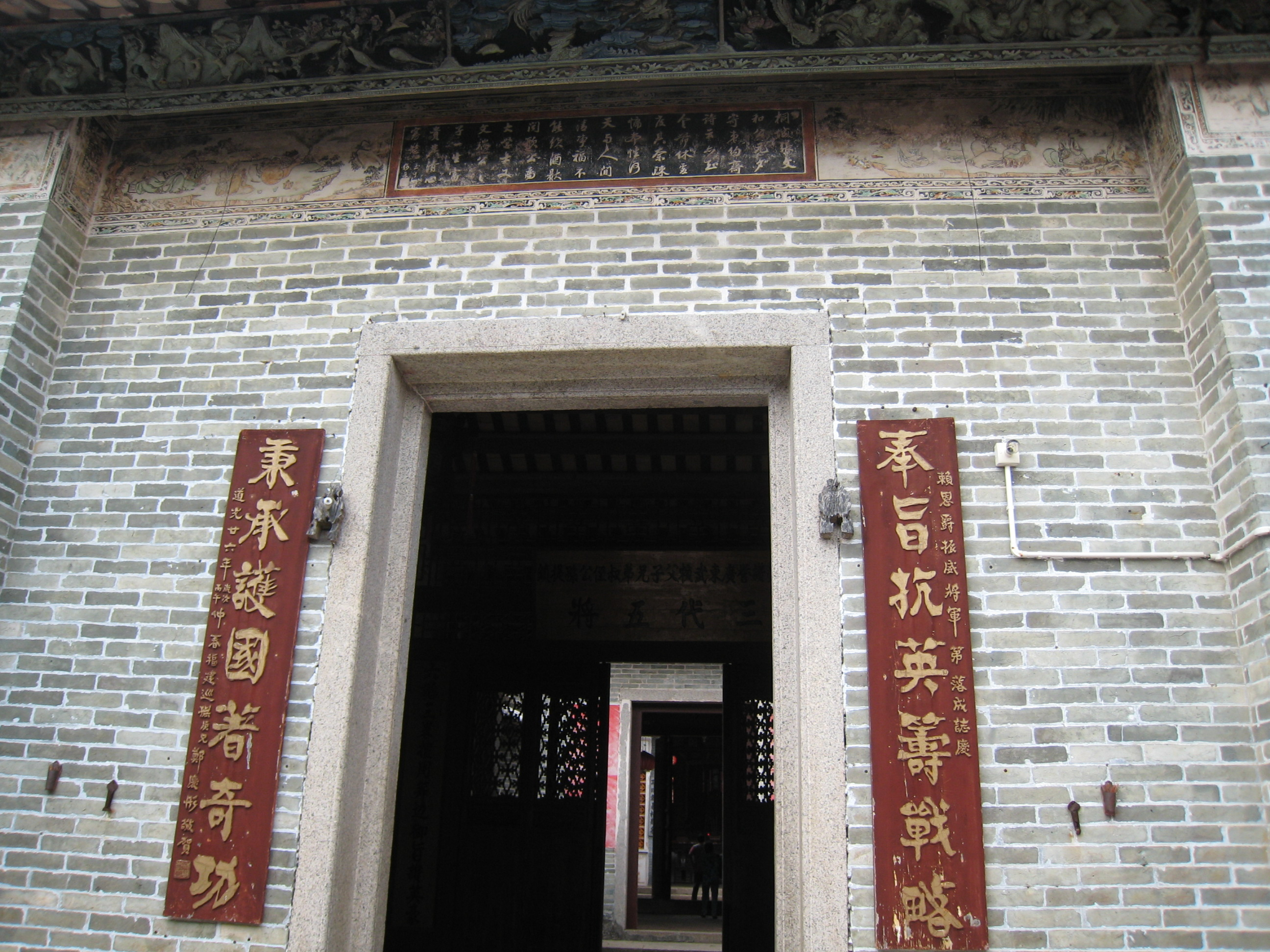 duiluan at Laifu museum